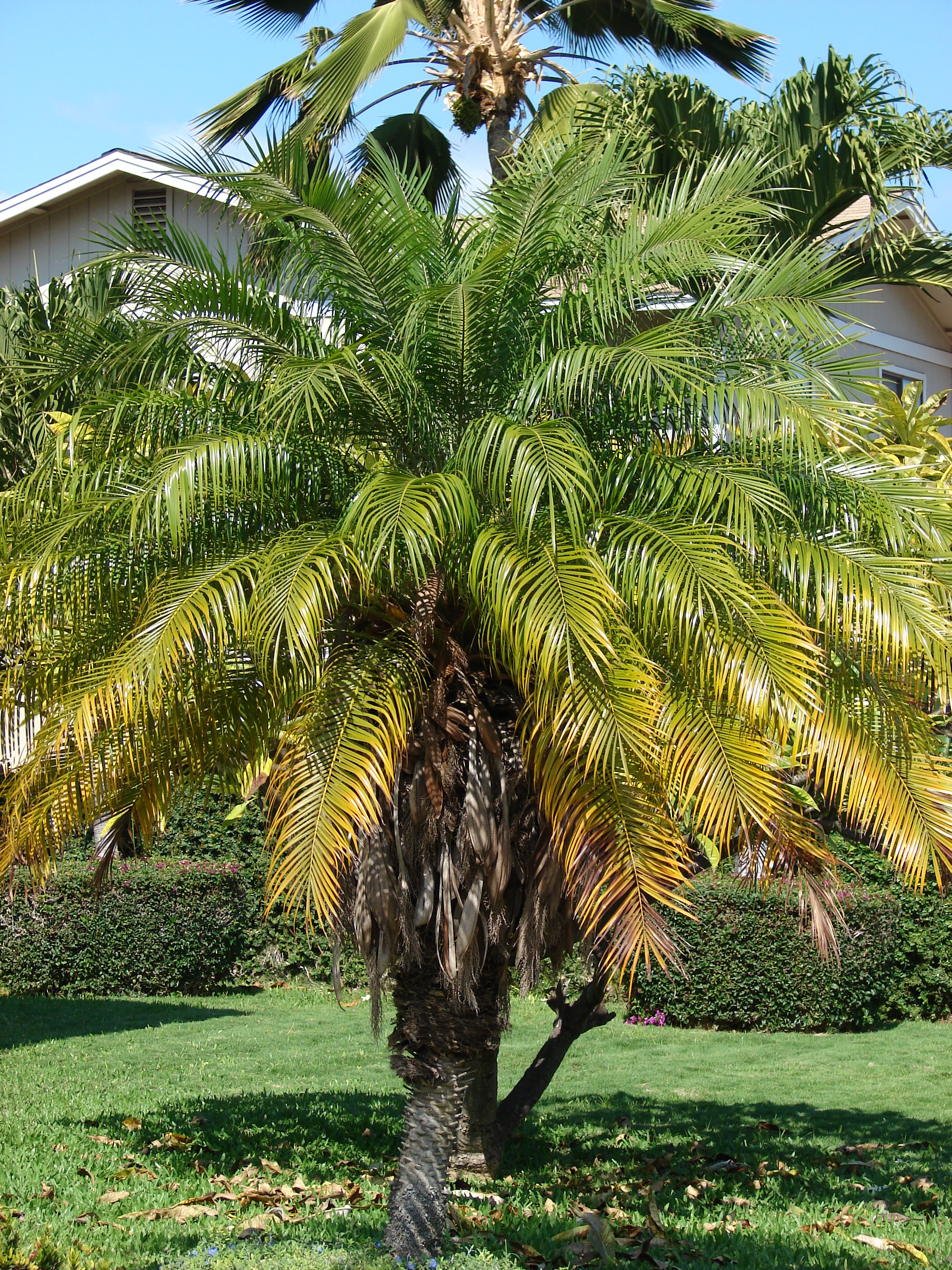 Phoenix roebelenii (habit). Location: Maui, Kihei